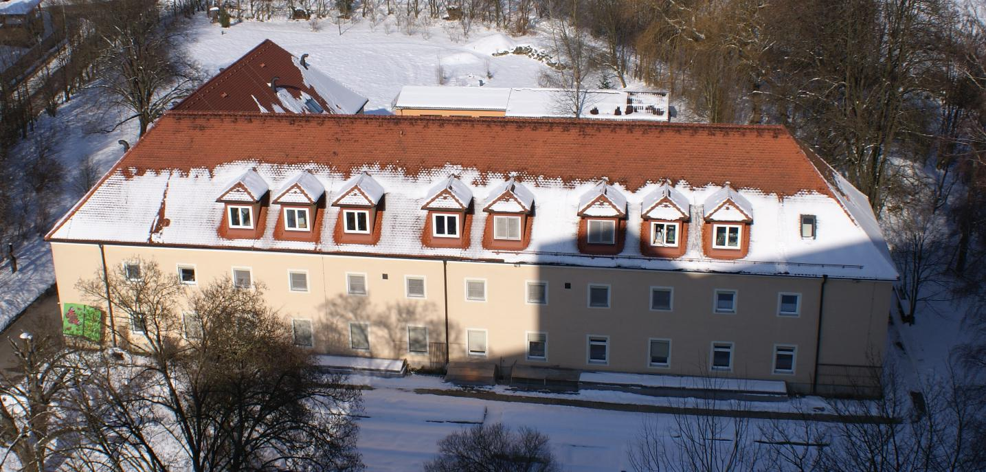 "Biologiezentrum Dornach" (biology center in Dornach) of the Upper Austrian State Museums in Linz-Dornach.